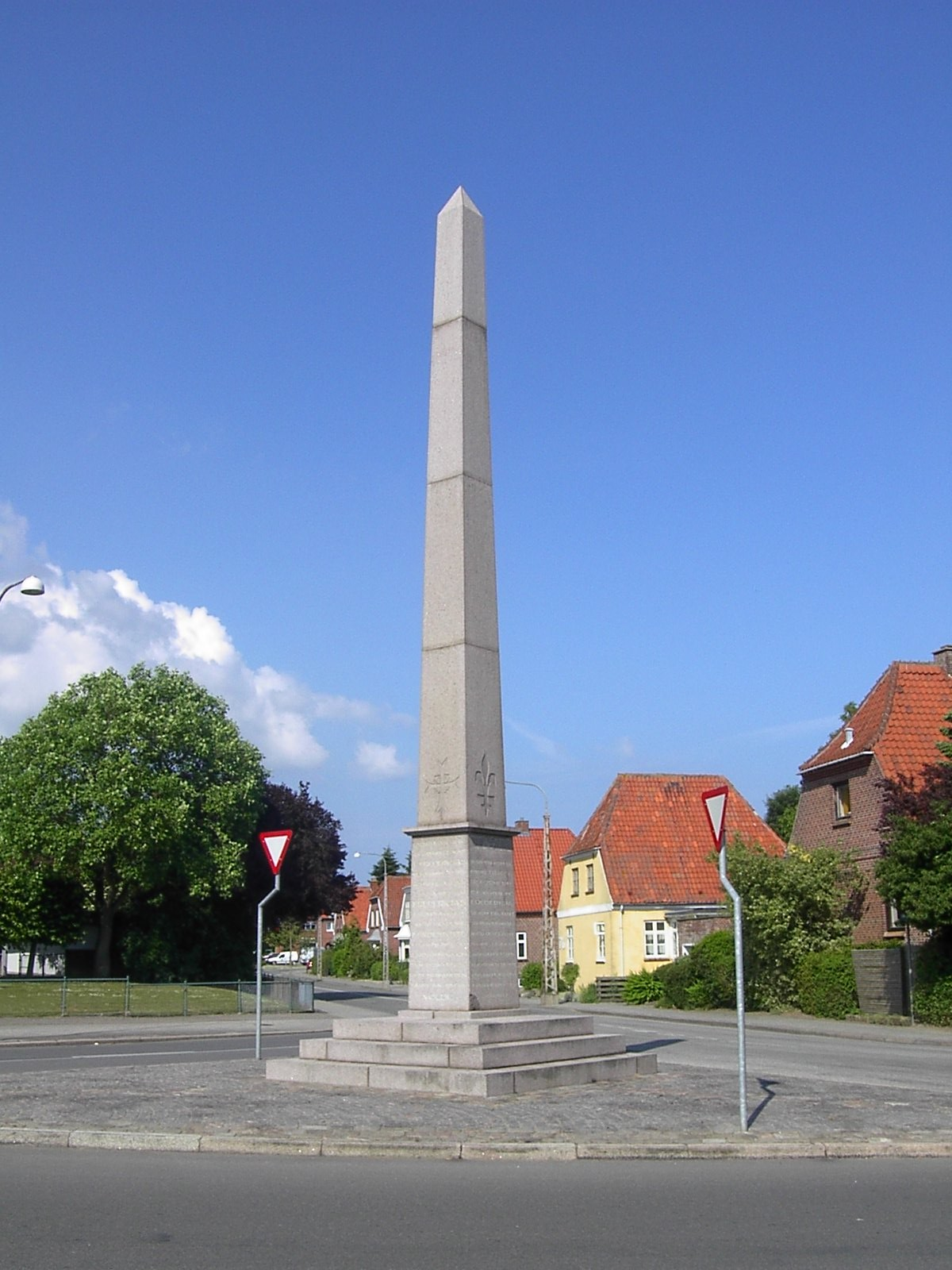 This obelisk was erected by the Reformed community in the Danish town of Fredericia. It celebrates the arrival of the first Huguenots to the town in 1719 and the religious freedom awarded to them by Danish authorities. The finished obelisk was completed by 1952, but a wooden replica was erected as part of the town's celebration of its 300th anniversary in 1950.[1]